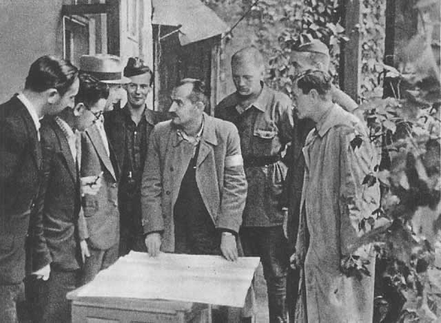 Warsaw Uprising: Headquarters of II region of Śródmieście Sub-district before attack on "mała PASTa". People from the left: "Abdank" (officer), Jan Mikołajczyk "Jan Czyński" (Quartermaster)), "Kordian" (second in command for the Region), Fijałkowski "Dolek", Władysław Abramowicz "Litwin" (commander of the Region - with hands on the map), Mieczysław Czubalski "Mieczysław", Capitan Zygmunt Netzer "Kryska" and Dzięgielewski "Dunin".